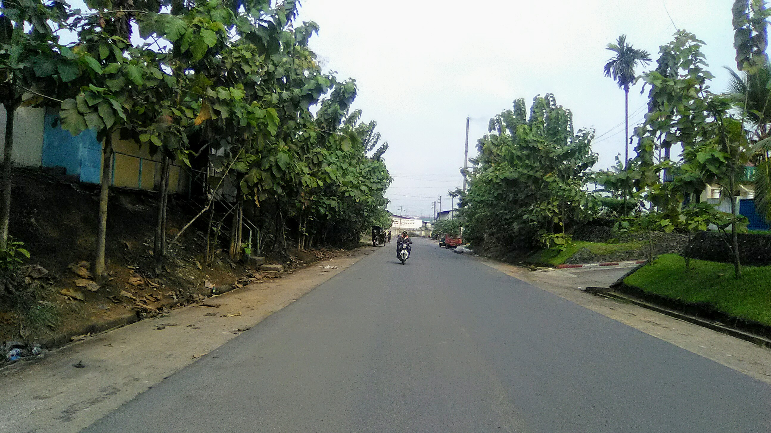 This is an image with the theme "Africa on the Move or Transport" from: Cameroon